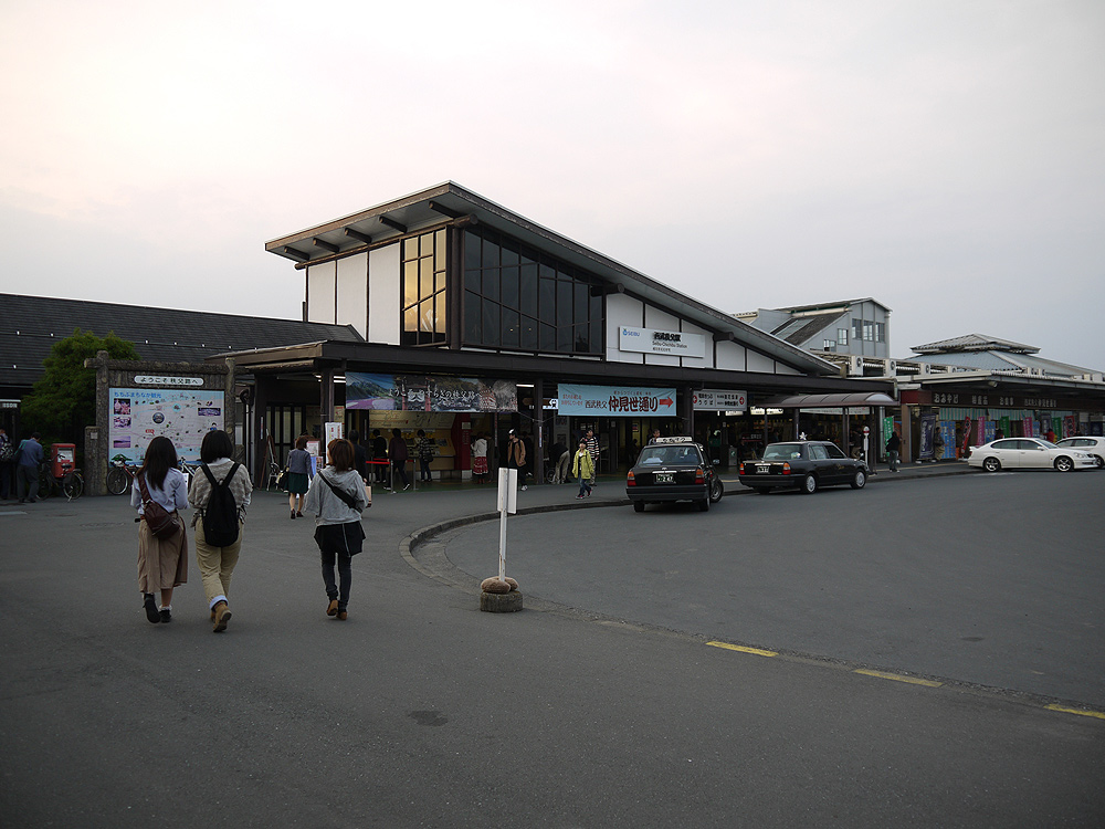 Seibu-Chichibu Station